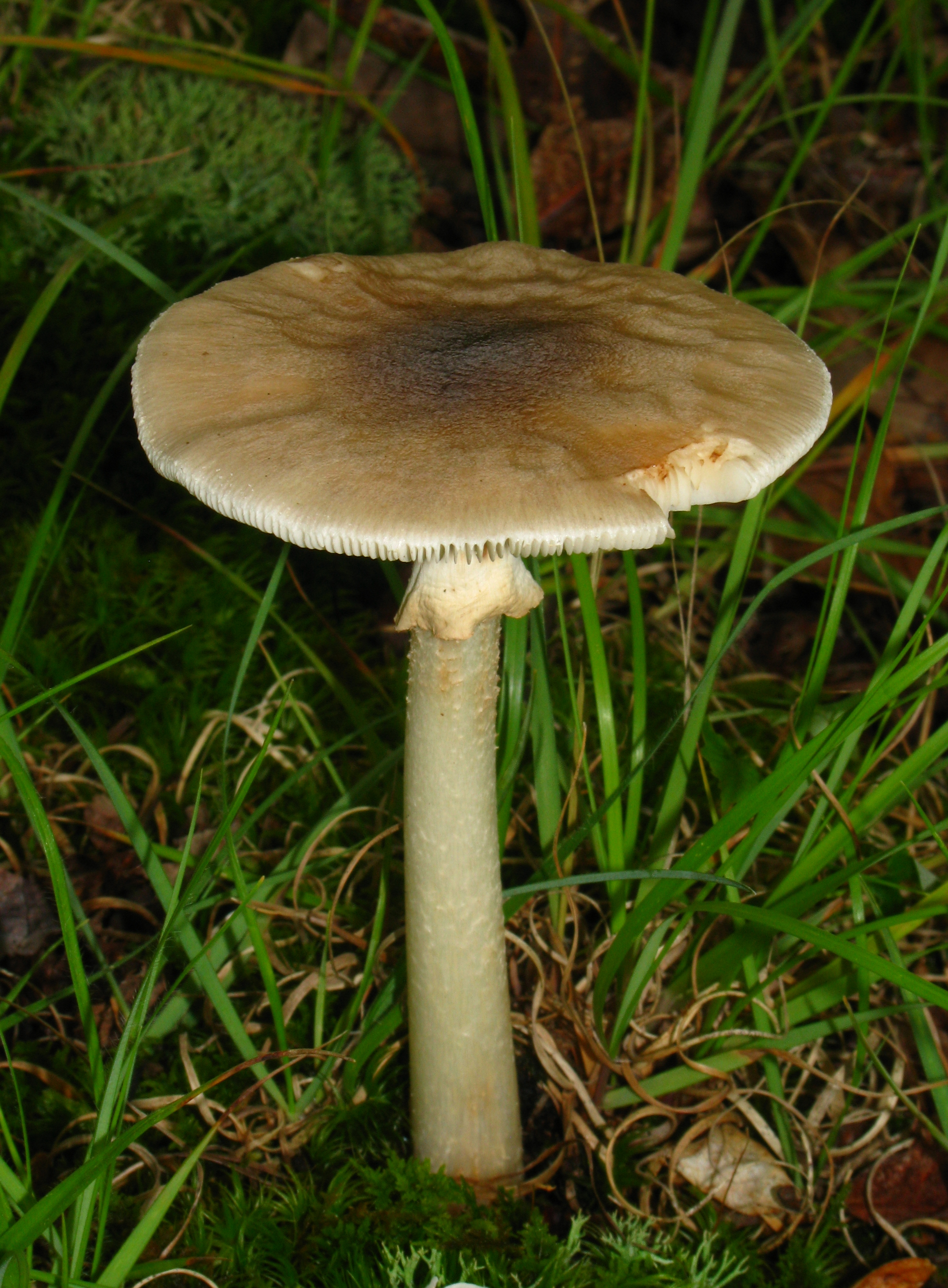 Amanita brunnescens G. F. Atk. For more information about this, see the observation page at Mushroom Observer.